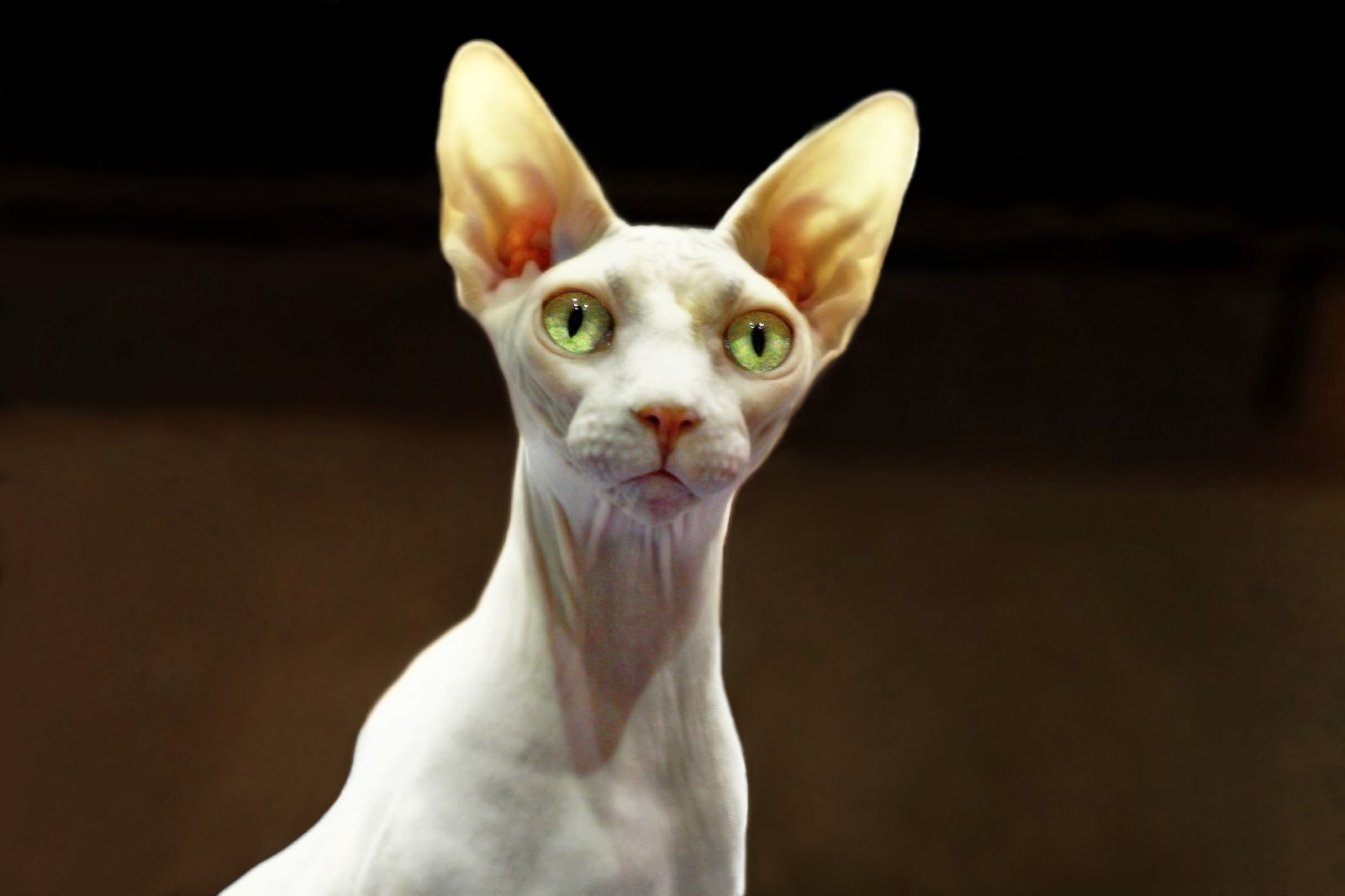 Sphynx cat at a cat show.